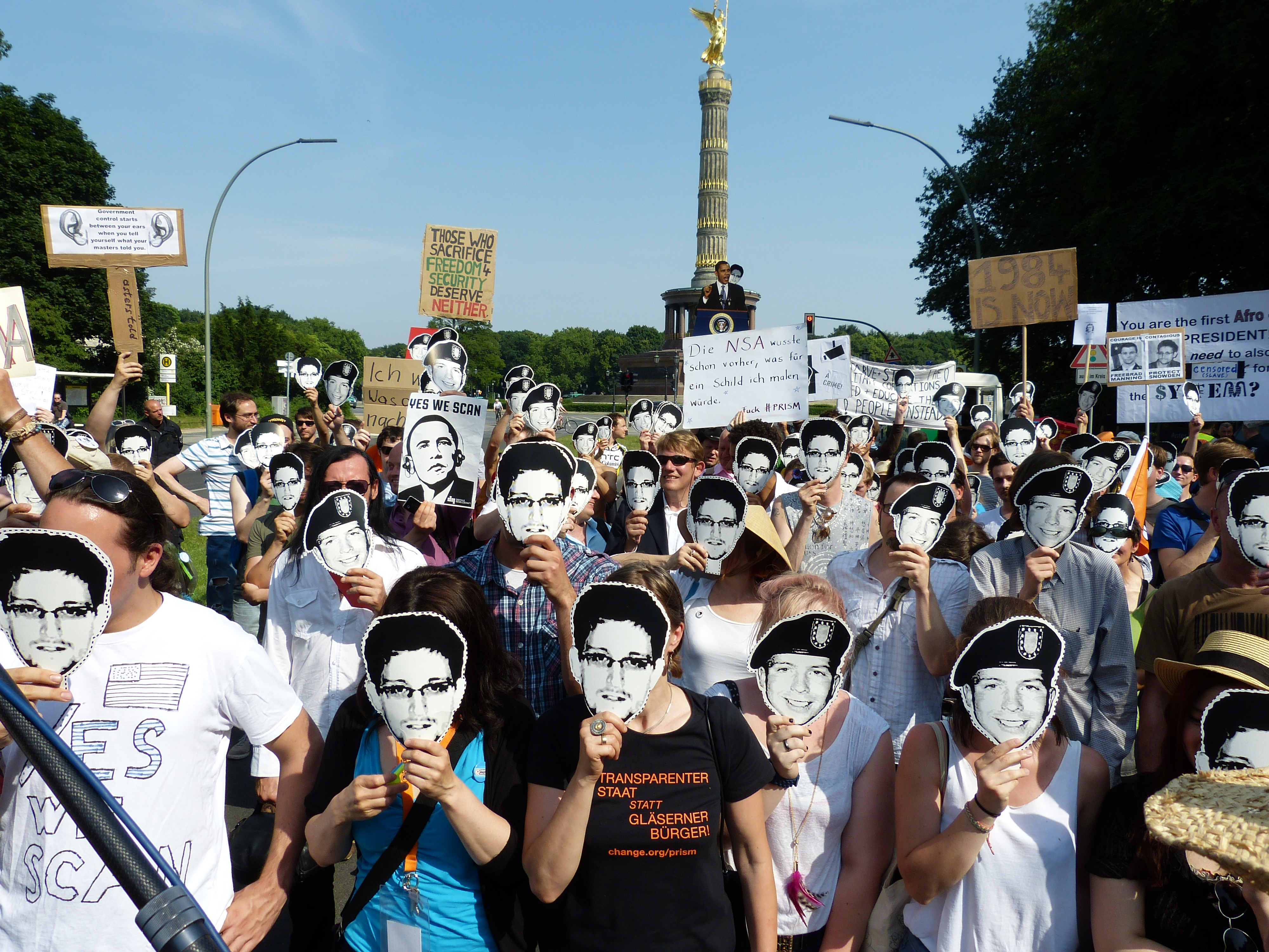 Demonstration against PRISM in Berlin, organised by the Pirate Party , during United States president Barack Obama's visit